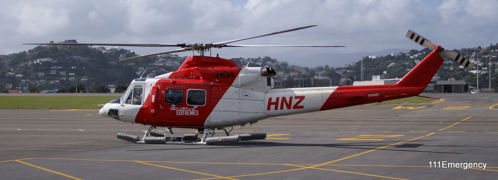 Helicopters New Zealand Bell 412